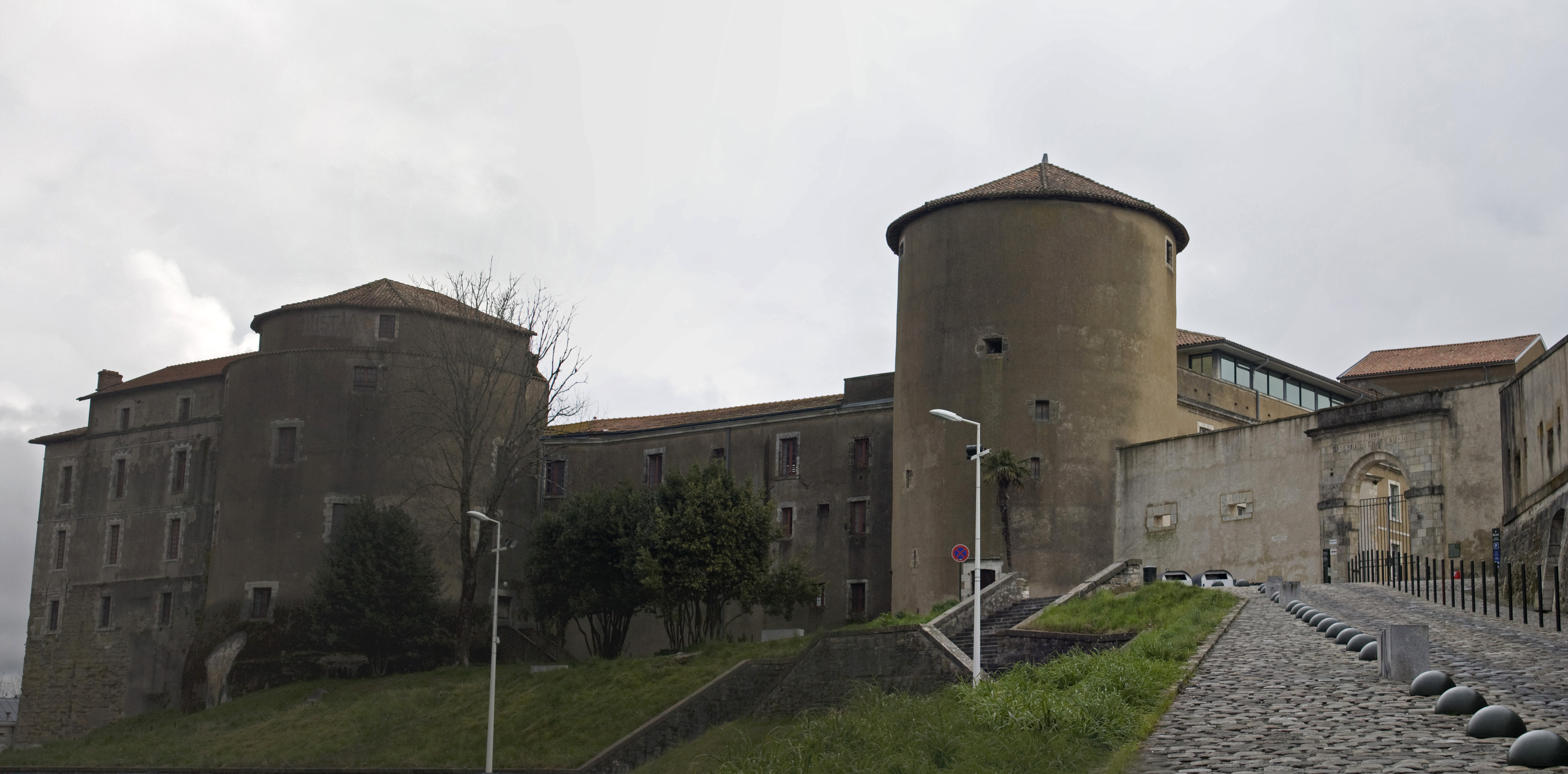 The New Castle houses the University of the countries of the Adour.